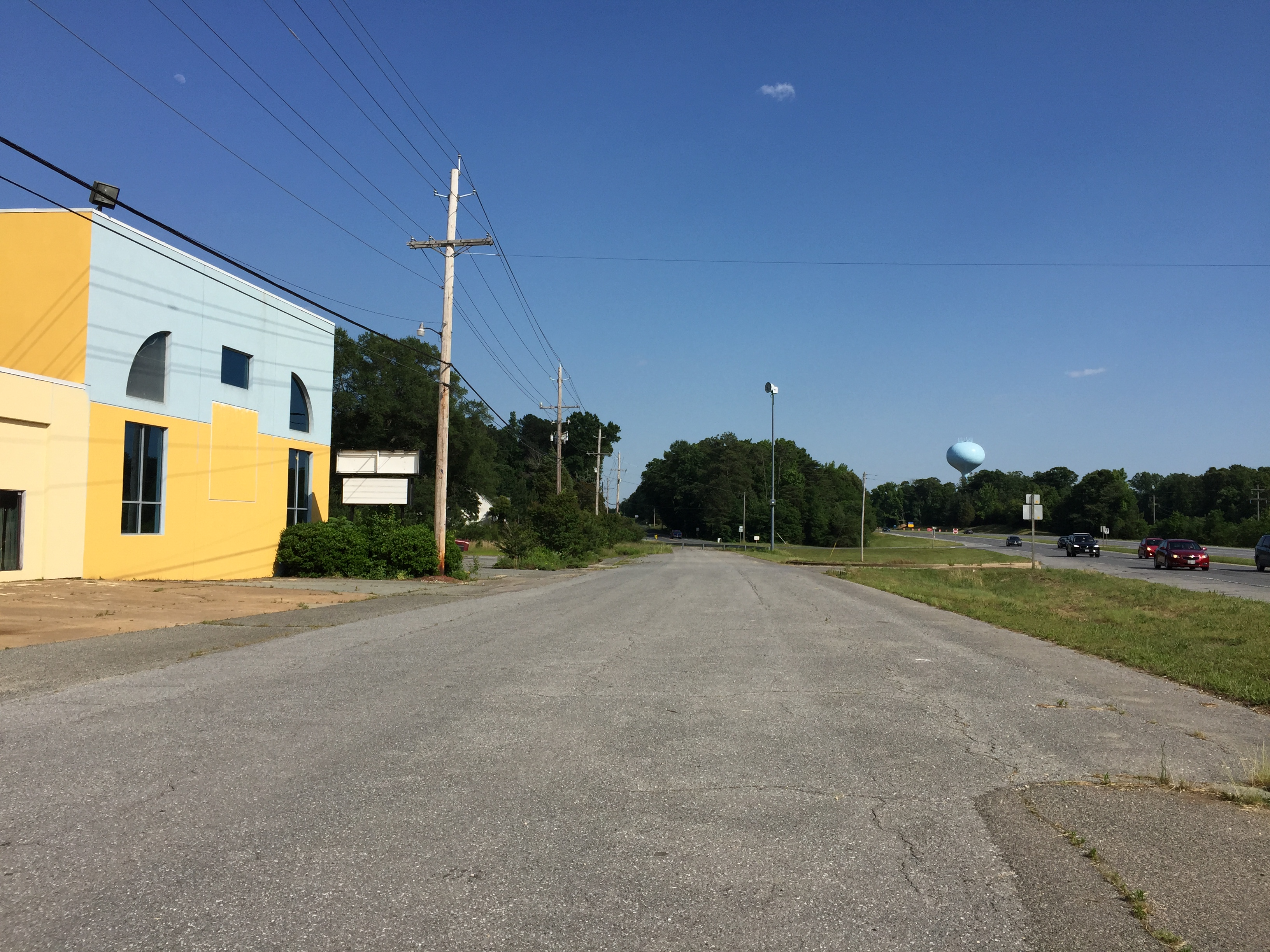 View south from the north end of Maryland State Route 945 in Hollywood, St. Mary's County, Maryland